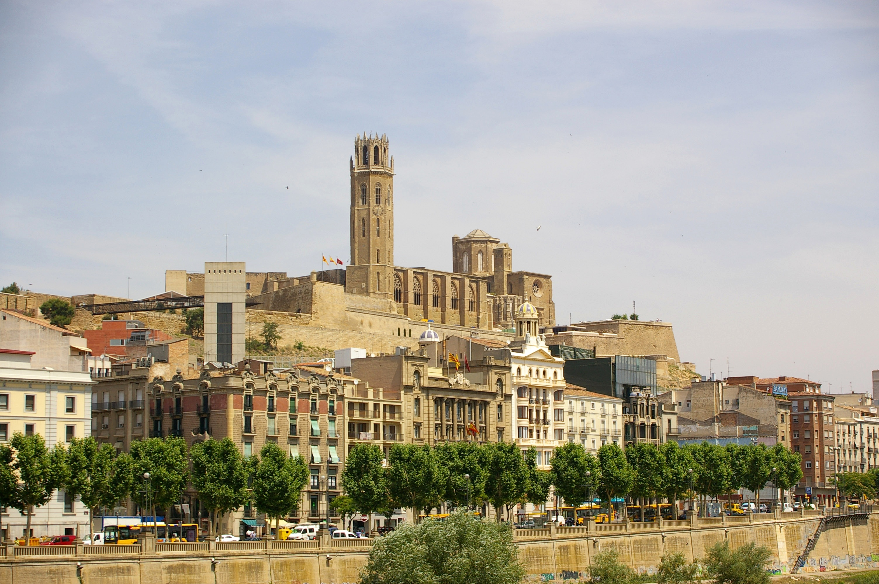 La Seu Vella, in Lleida. Taken from Cappont's side of the river.